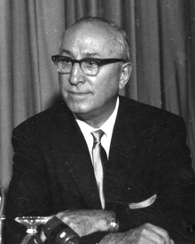 "Roy O. Disney (1893–1971), the American businessman; partner and co-founder of The Walt Disney Company with his brother Walt Disney. This 1965 photograph shows Roy Disney and his brother with Florida's Governor W. Haydon Burns (1912–87), announcing plans to create a Disney theme park in the state. Walt Disney World opened in 1971. Located just southwest of Orlando, Florida, the attraction grew to become the largest resort in the world, covering 47 square miles (122 square kilometers) and encompassing four theme parks, two water parks, a wilderness preserve, and numerous hotels."